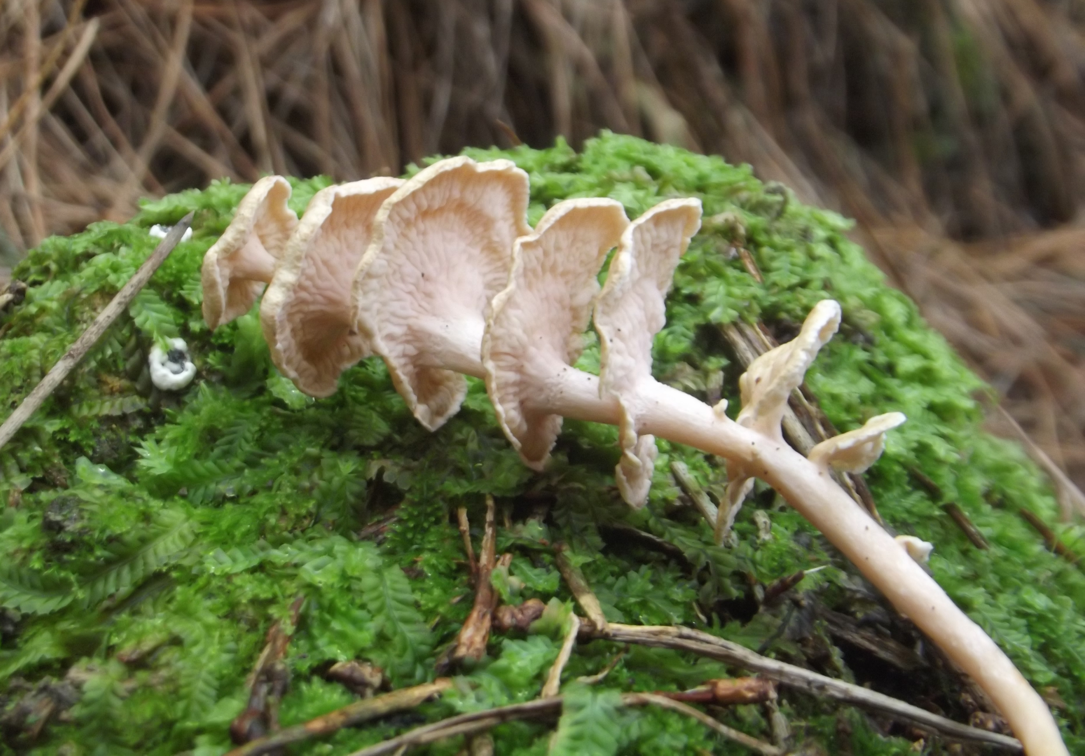 A fruit body of the fungus Podoserpula pusio var. tristis D.A. Reid. Photographed in Riverhead, Auckland, New Zealand. "Notes: Found on conifer debris, several dozen specimens present in small area. It is really awesome!"